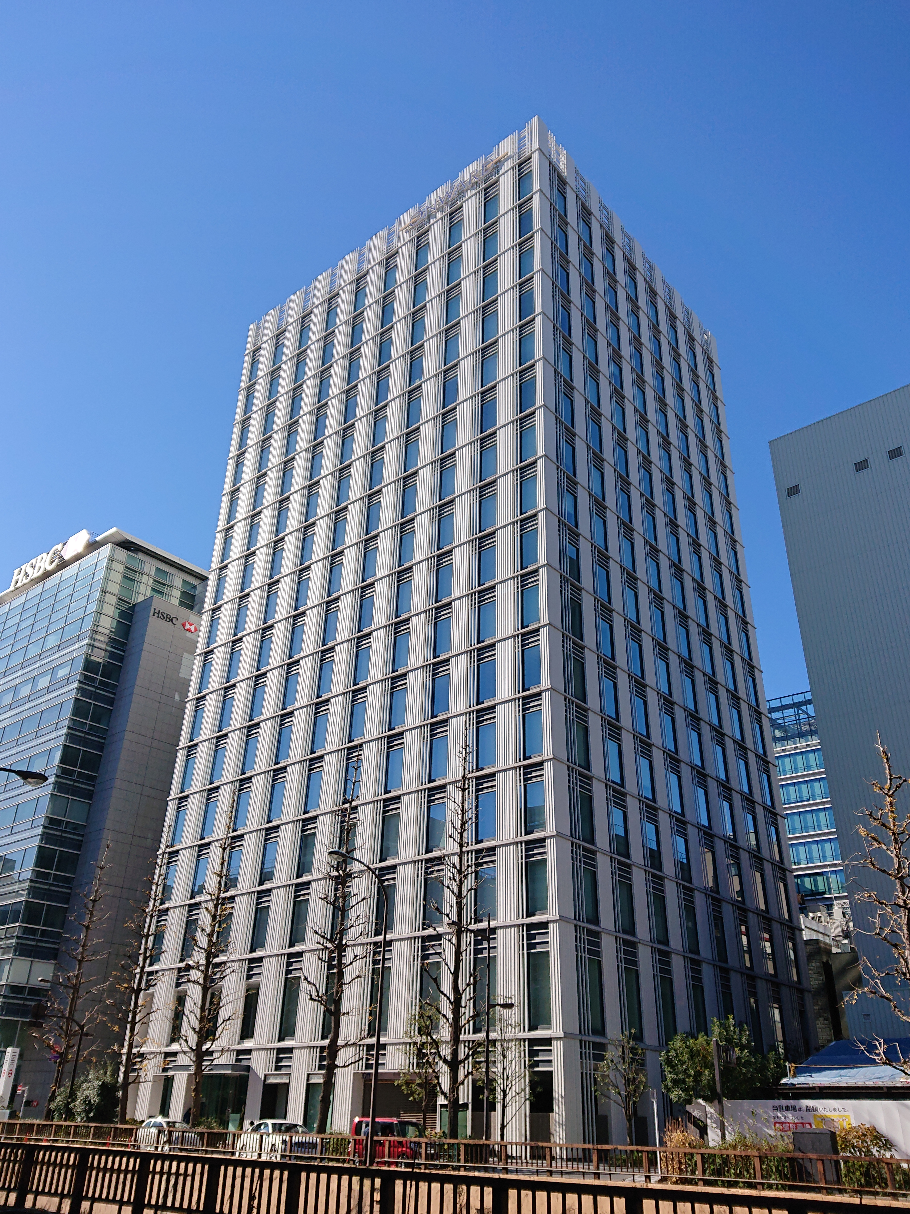 Onward Park Building, located at 3-10-5 Nihonbashi, Chuo, Tokyo, Japan